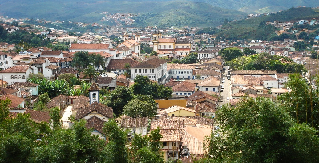 View of Mariana